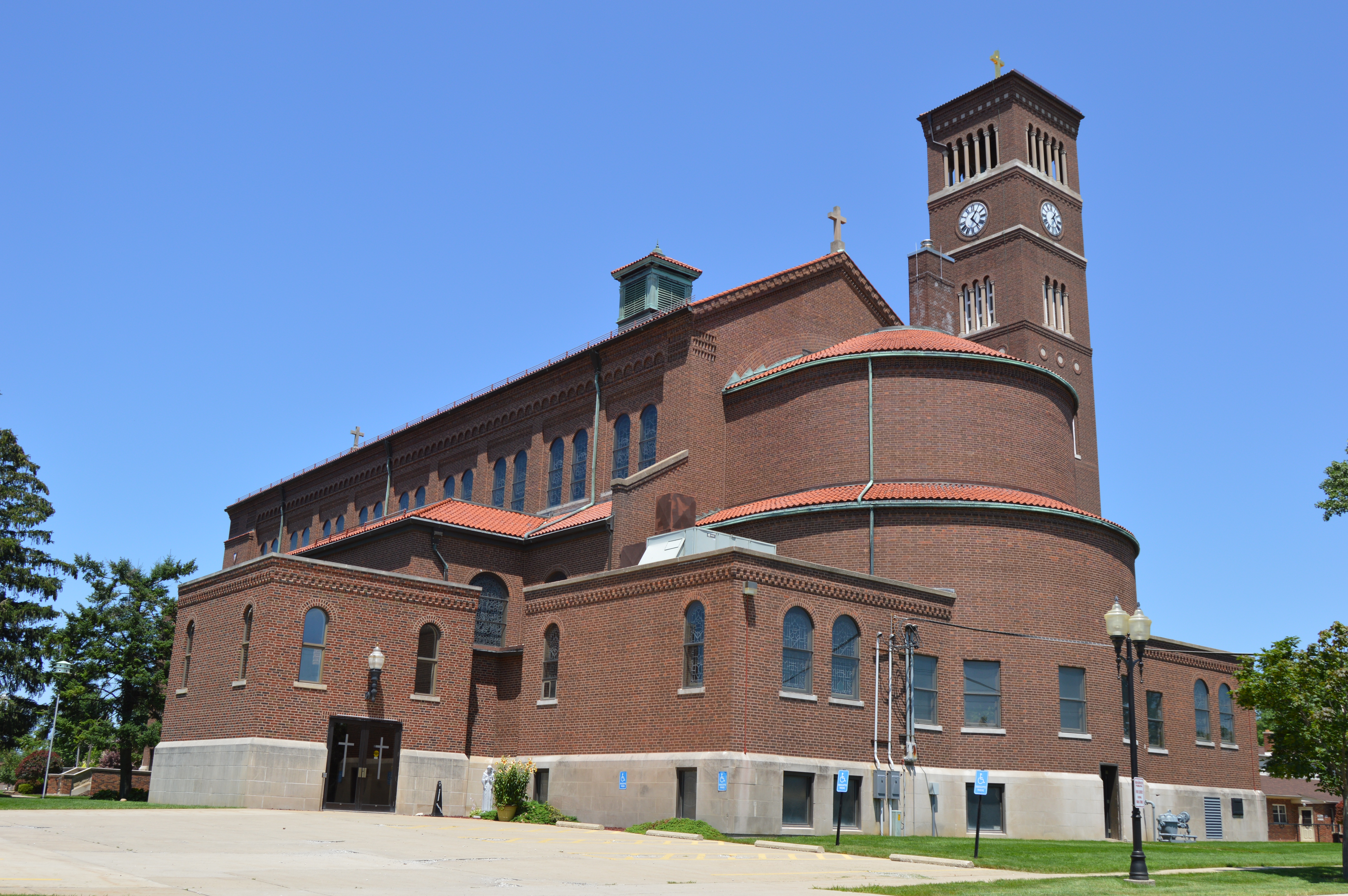 Rear and southern side of St. Michael's Catholic Church, located at 312 N. Broad Street (State Route 115) in Kalida, Ohio, United States. It was built in 1926.